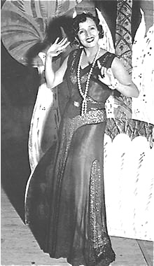 Sofia Bozan